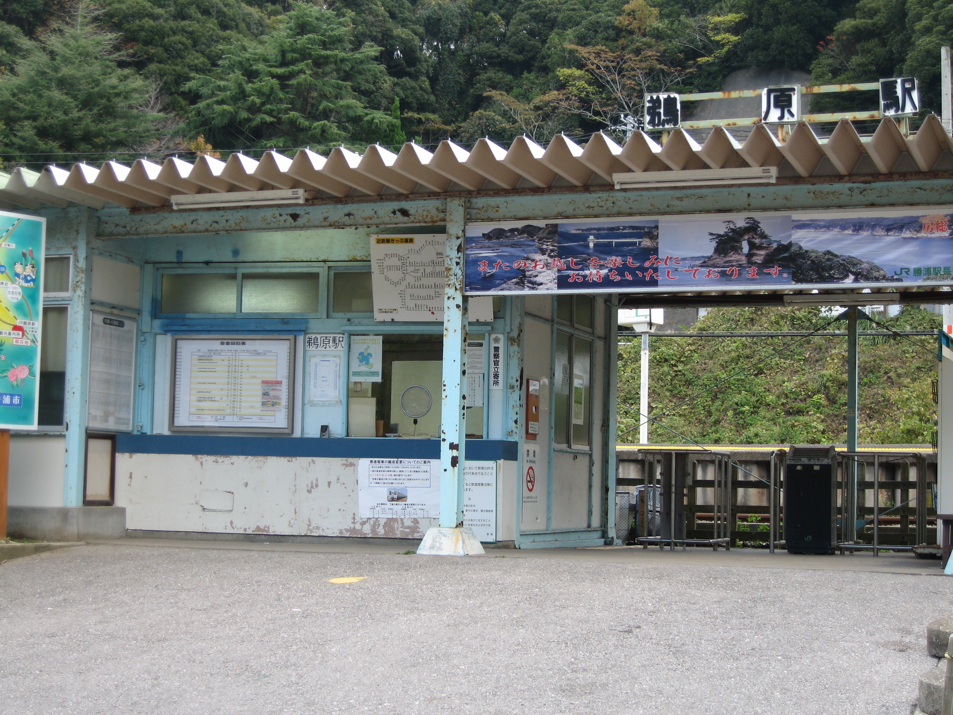 Ubara station, Sotobo Line, Chiba, Japan, 鵜原駅